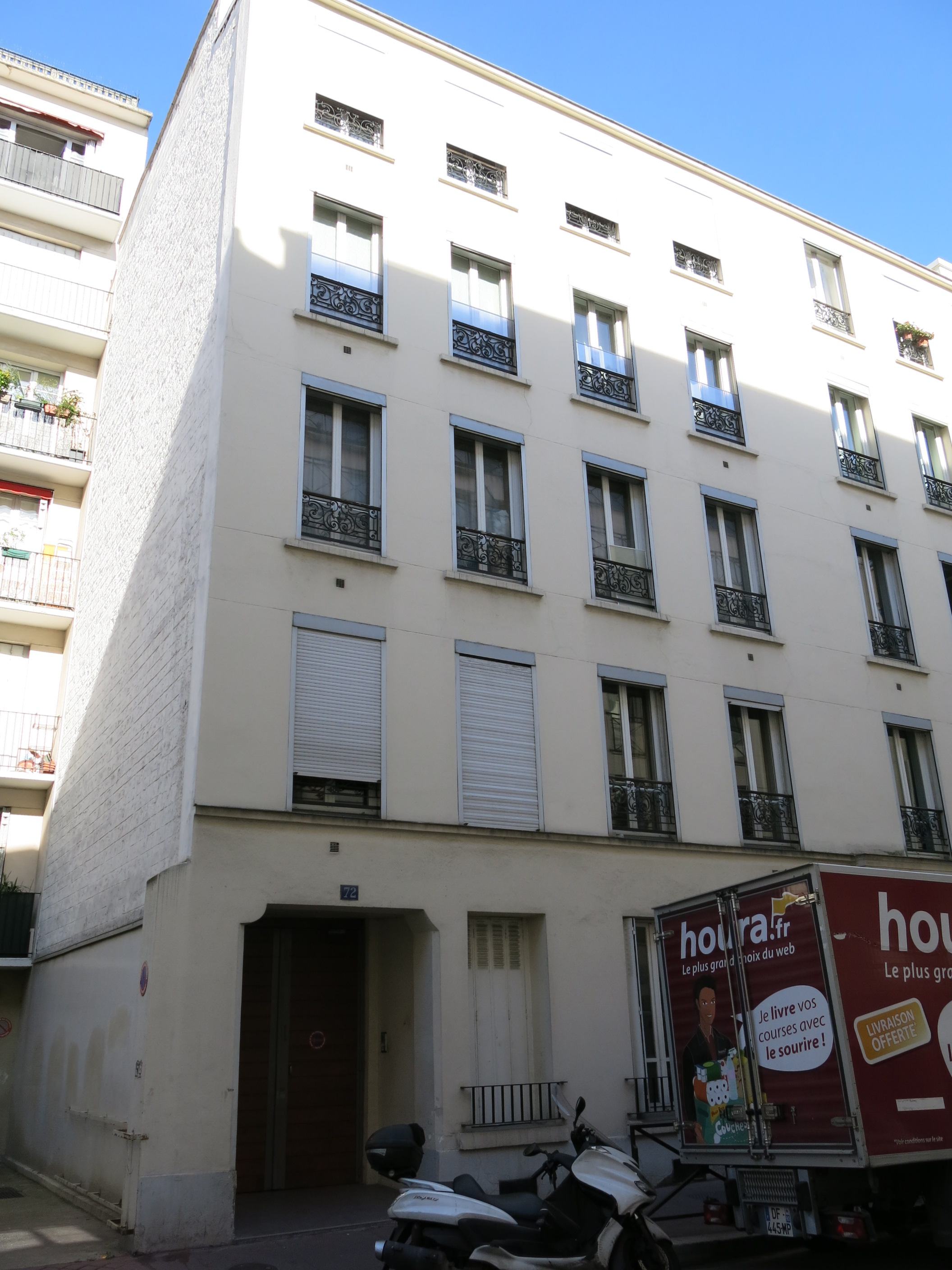 Building 72 rue Jules Guesde at Levallois (Hauts-de-Seine, France). In 2015, head office of Speed Rabbit Pizza.